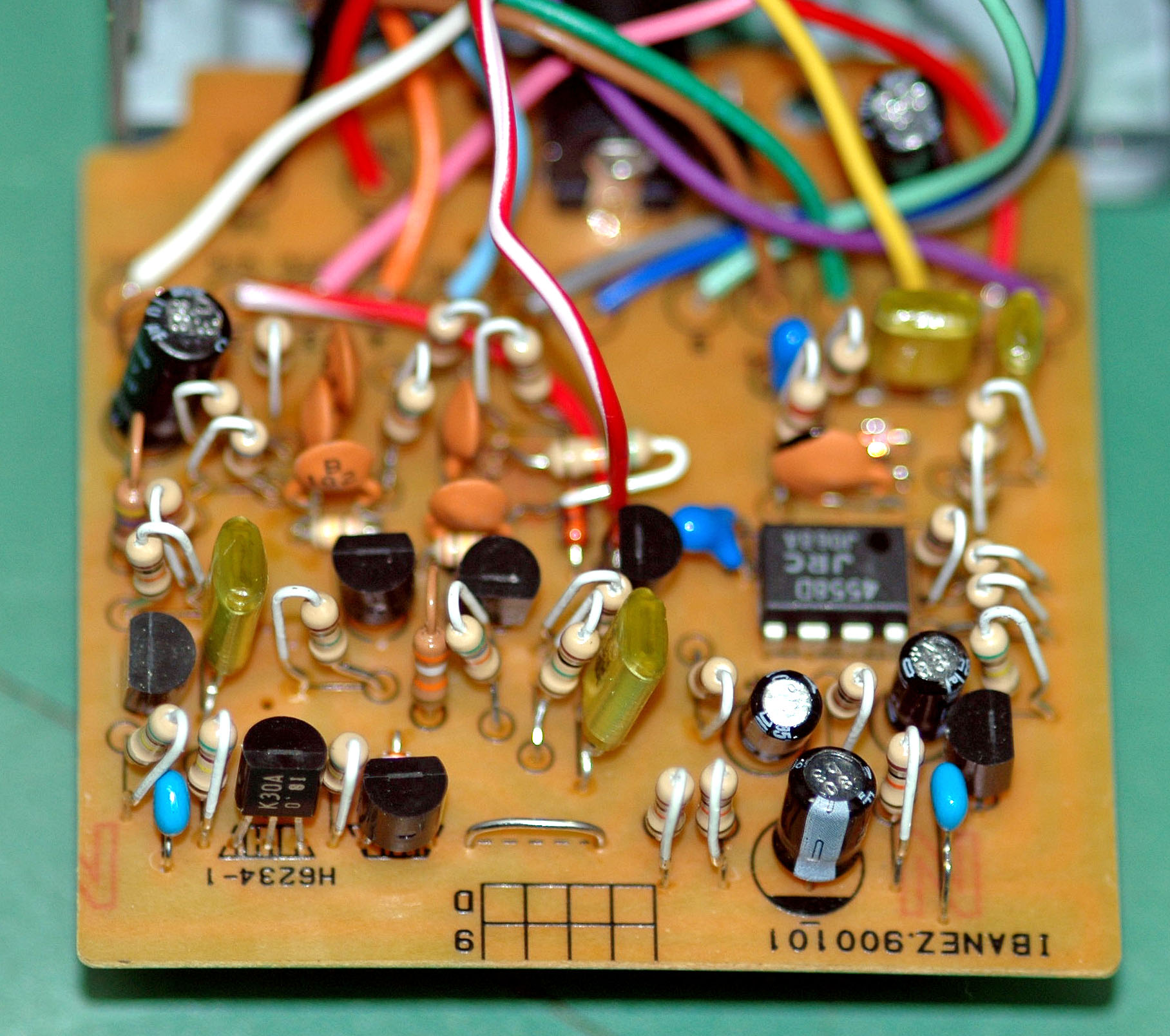 Circuit of an open Tube Screamer TS-9 pedal.